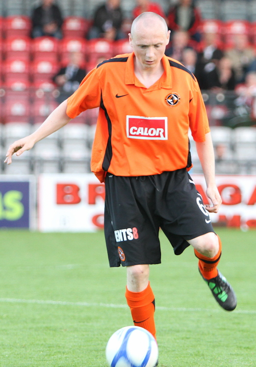 Willo Flood from Bohemians V Dundee United (22 of 34)